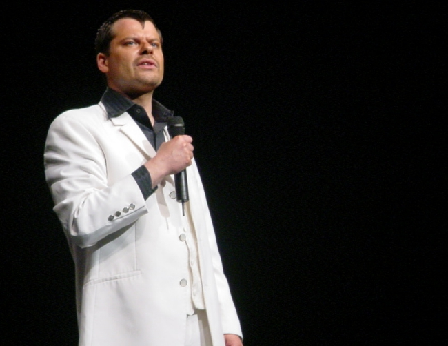 Ingo Appelt in the city hall in Biberach/Riß, May 22nd, 2004.